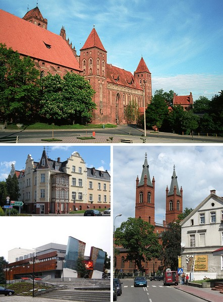 Katedra, róg Kościuszkowski, Kinoteatr, św. Trójca